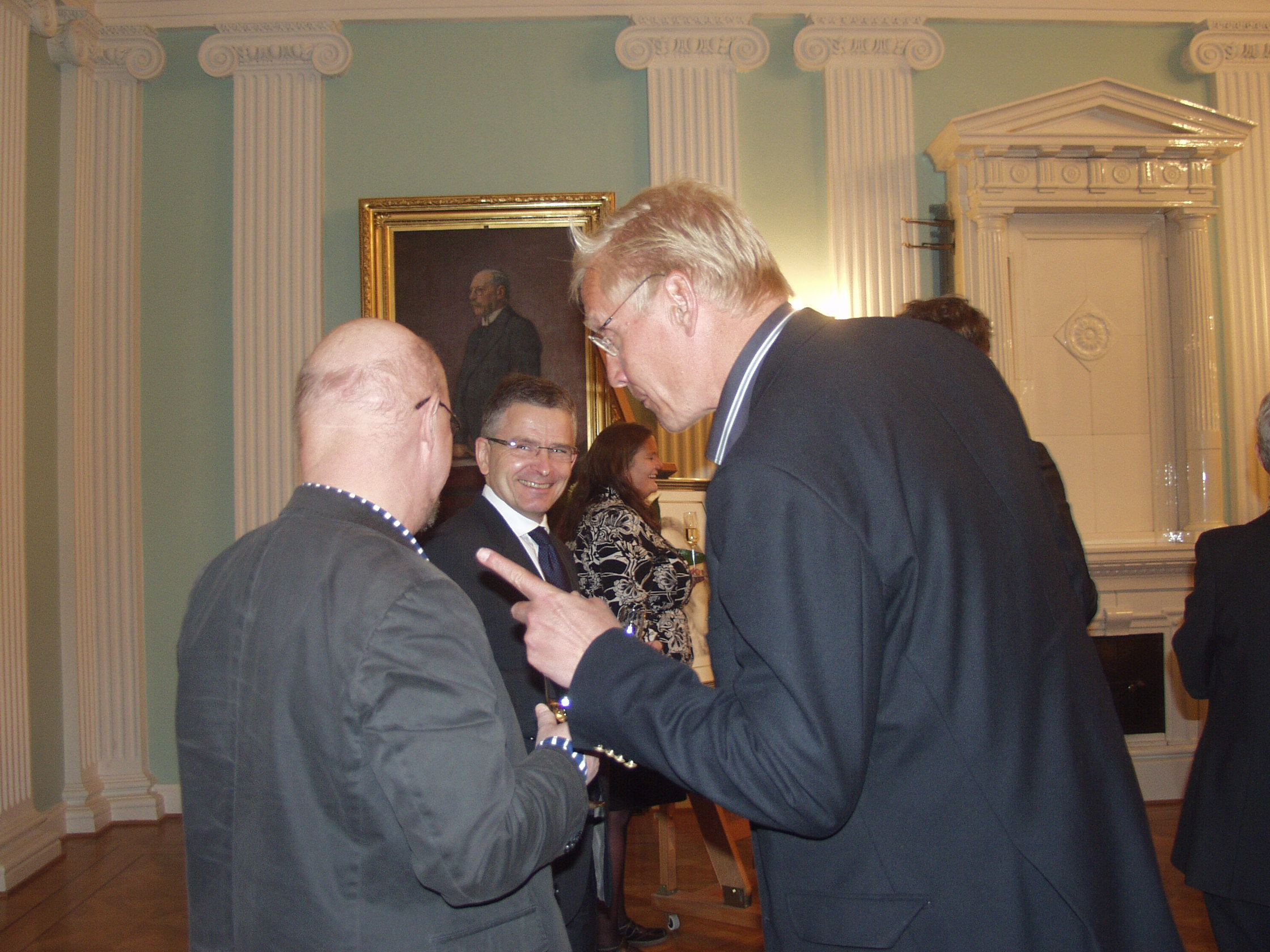 Unveiling ceremony of the official portrait of the then former chairwoman of the Helsinki City Council, Minerva Krohn by Julia Vuori. Helsinki major Jussi Pajunen (center) with leading city council members. Chairwoman (2003–2004, 2011–) Minerva Krohn (background), Osmo Soininvaara (left), and Arto Bryggare (Right). Portrait of former chairman (1904–1918) Alfred Norrmén on the wall.